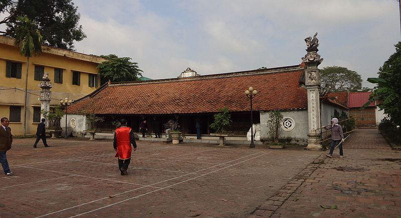 Mui temple, An Duyên hamlet, Tô Hiệu village, Thường Tín district, Hanoi